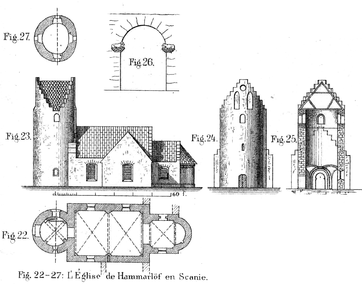 Hammarlöv church in Sweden in the mid 1800's. Drawing: Nils Månsson Mandelgren, published 1883.